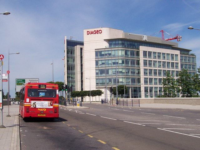 Coronation Road NW10 Bus Stop (226 + PR1) for Diageo and Park Royal Station Was site of Guinness Factory